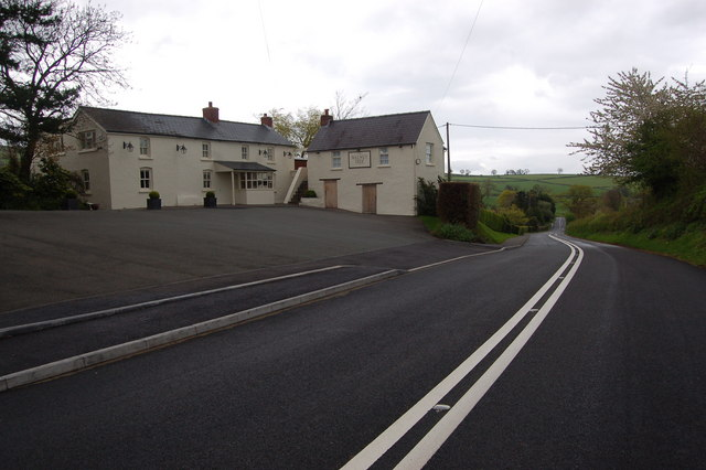 The Walnut Tree Inn and B4521 at Llanddewi Skirrid The recently refurbished Walnut Tree Inn is now home to celebrity chef Shaun Hill.